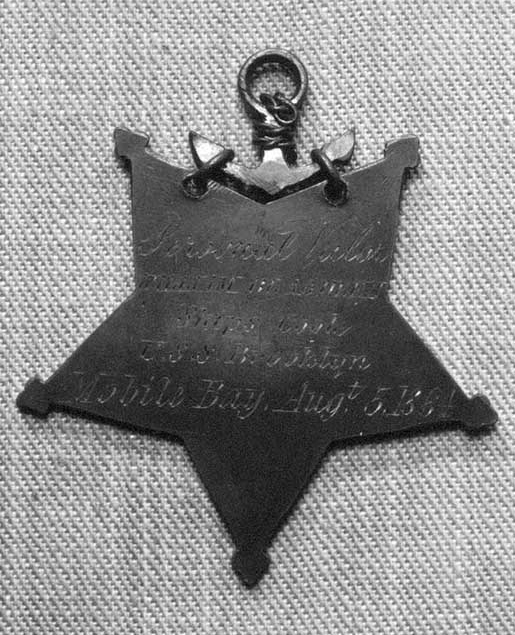 Reverse of a Medal of Honor awarded to Ship's Cook William Blagheen (or Blagden), United States Navy, for remaining steadfast at his post on board USS Brooklyn during the furious action at the Battle of Mobile Bay, Alabama, 5 August 1864.